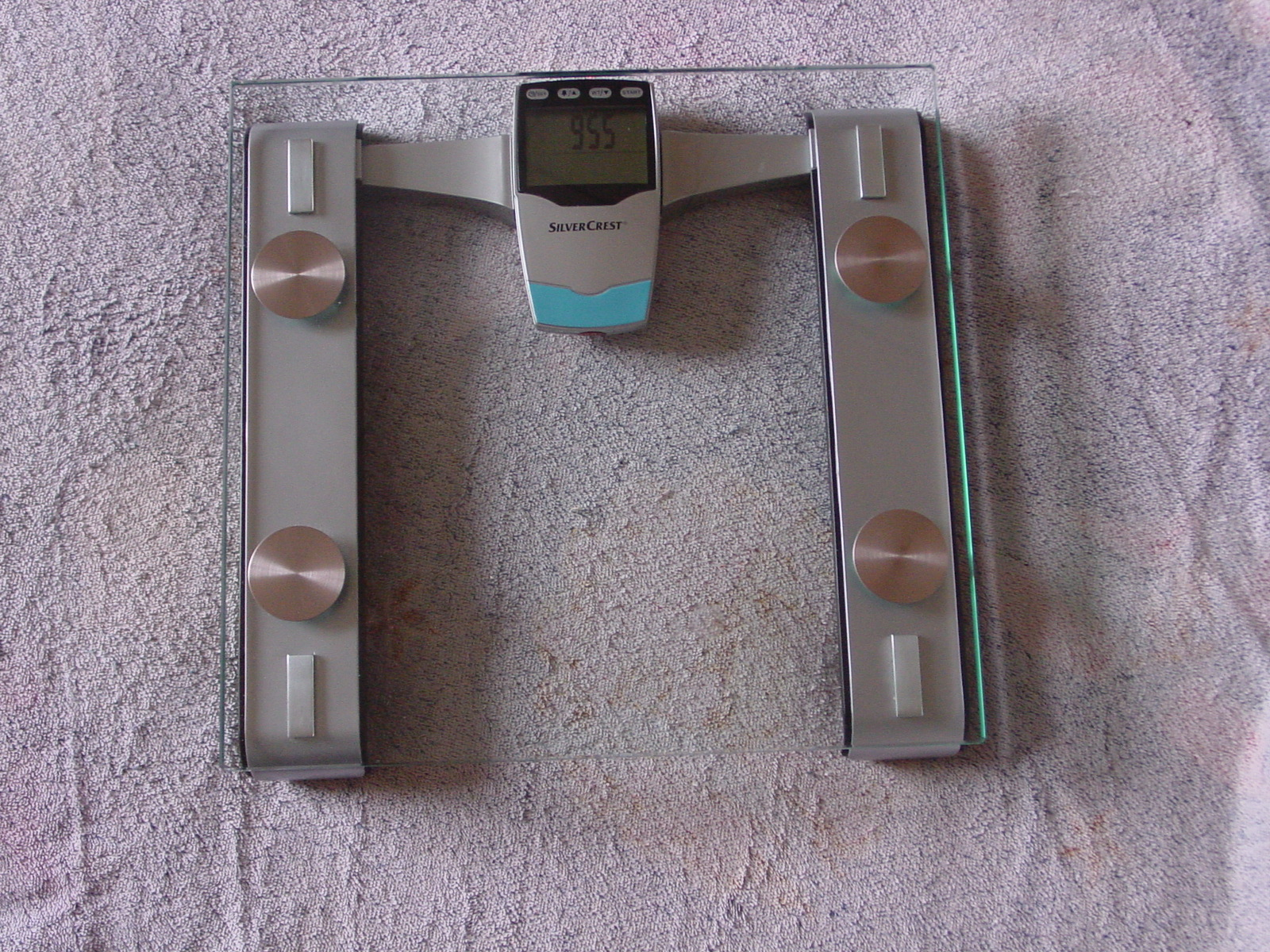 Bodyfat scale